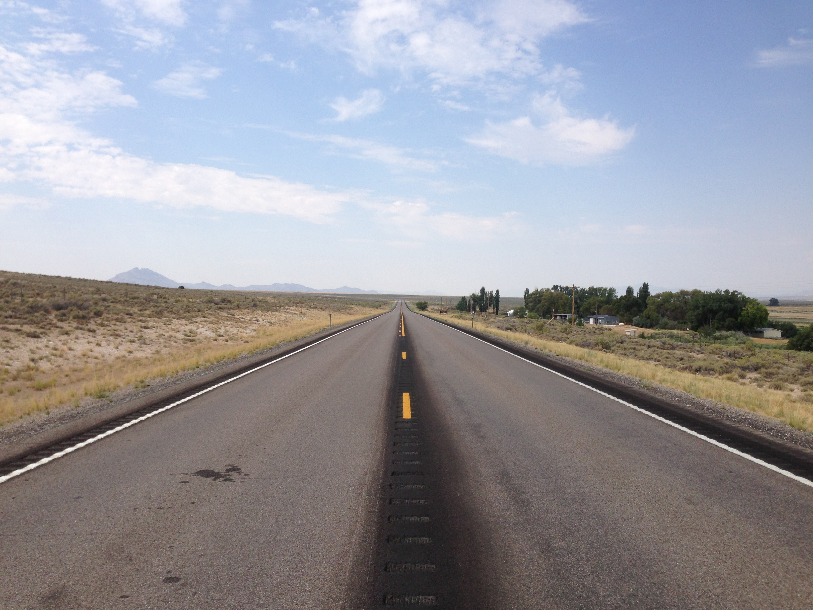 View south along Nevada State Route 318 about 18.9 miles north of the Lincoln County Line in Sunnyside, Nevada